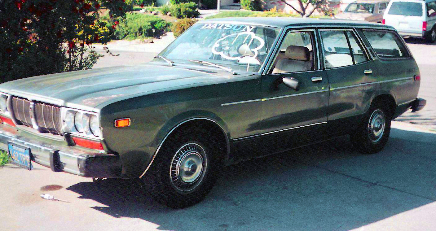 A 1977 Datsun 810 Wagon of the first generation (a Bluebird with a six-cylinder engine for the US market)